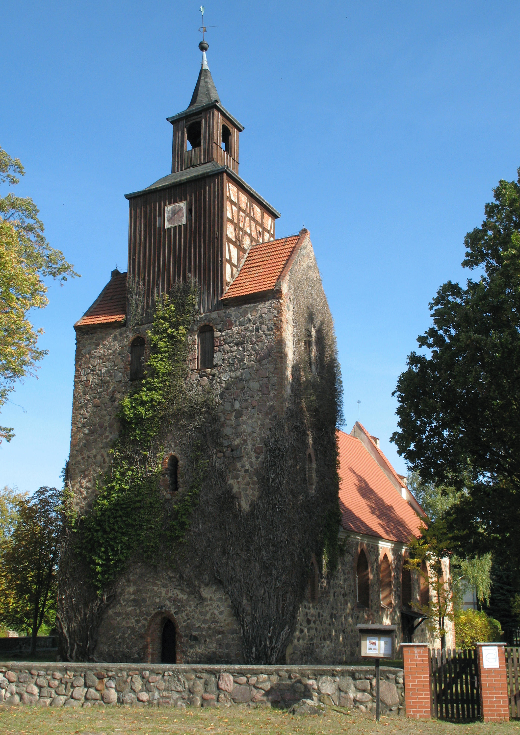 Church in Falkenthal (municipality Löwenberger Land) in Brandenburg, Germany